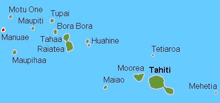 Location of Manuae (Scilly Atoll) within Society Islands, French Polynesia